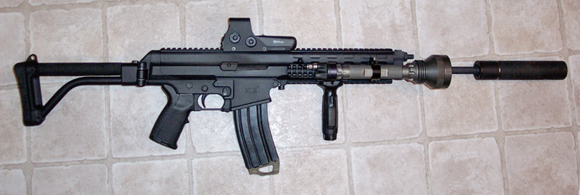 Robinson Arms XCR